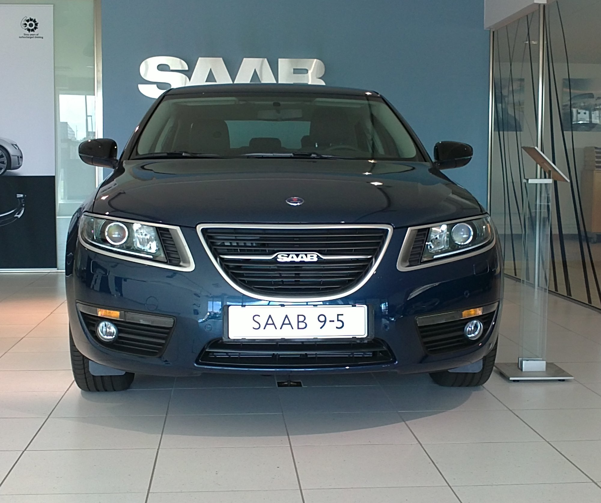 Saab 9-5, second generation.